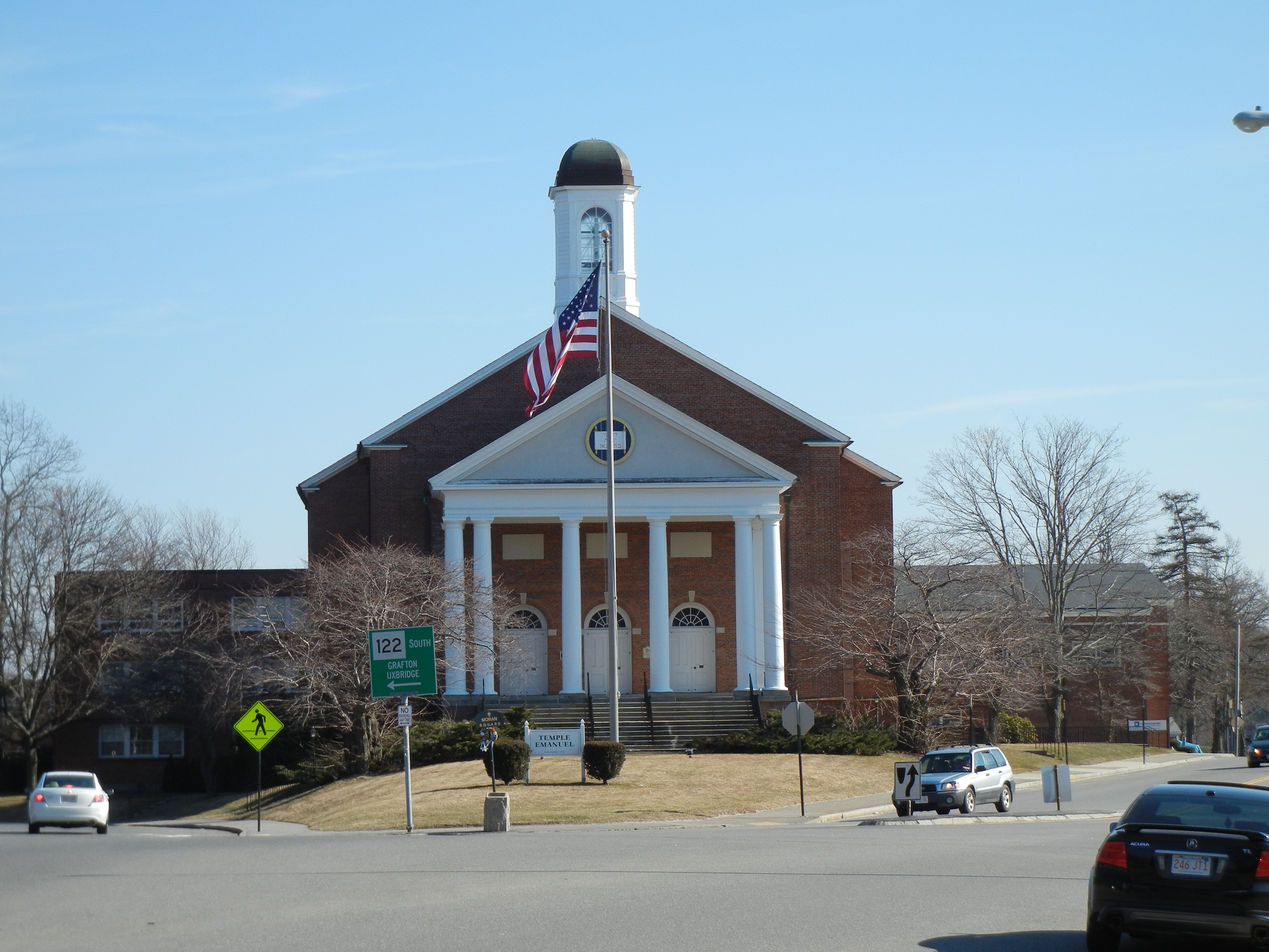 Temple Emanuel at 280 May Street in Worcester, Massachusetts